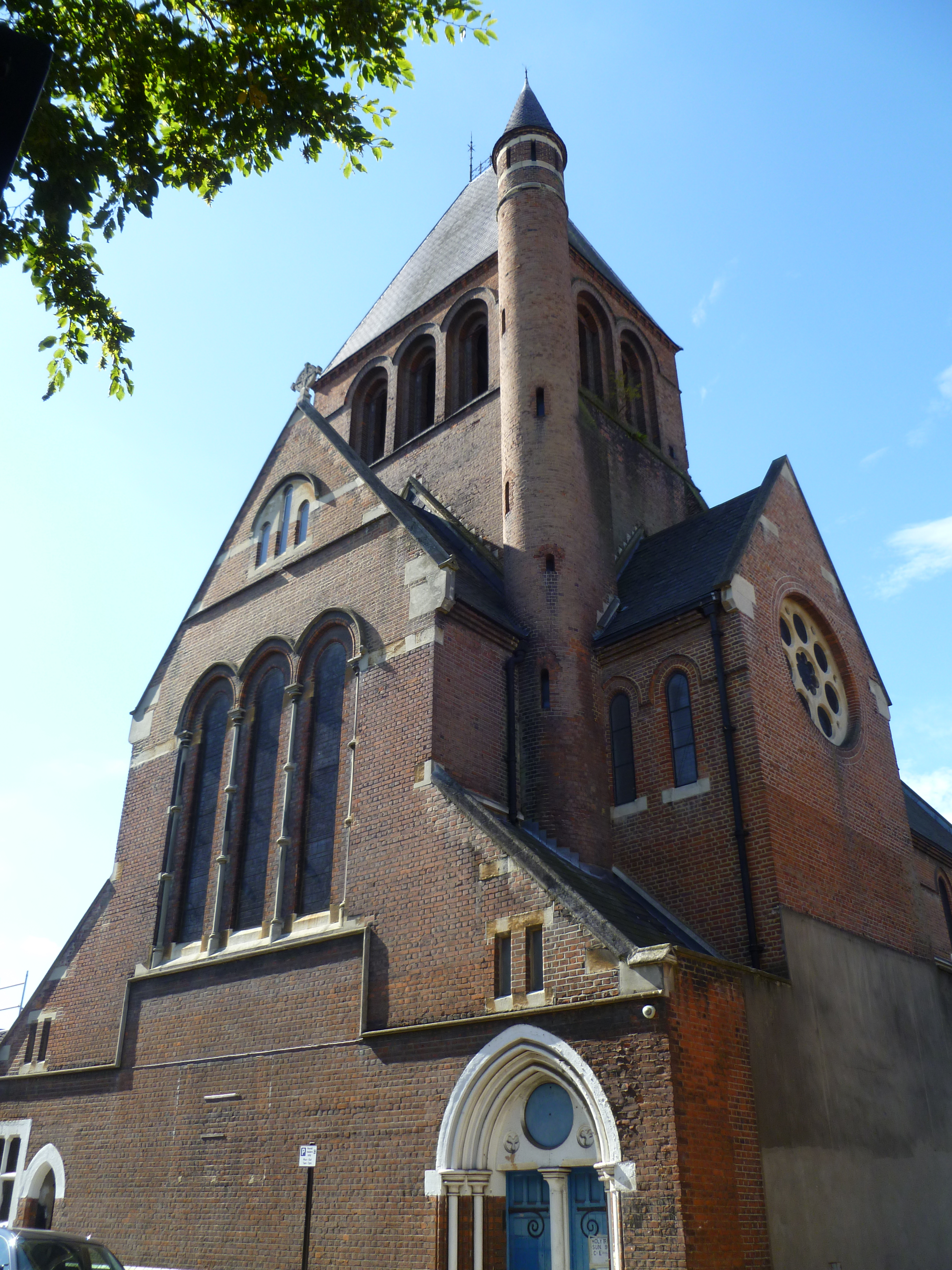 Chancel and east tower of Holy Trinity parish church, Dalston, London, seen form the northeast from Cumberland Close